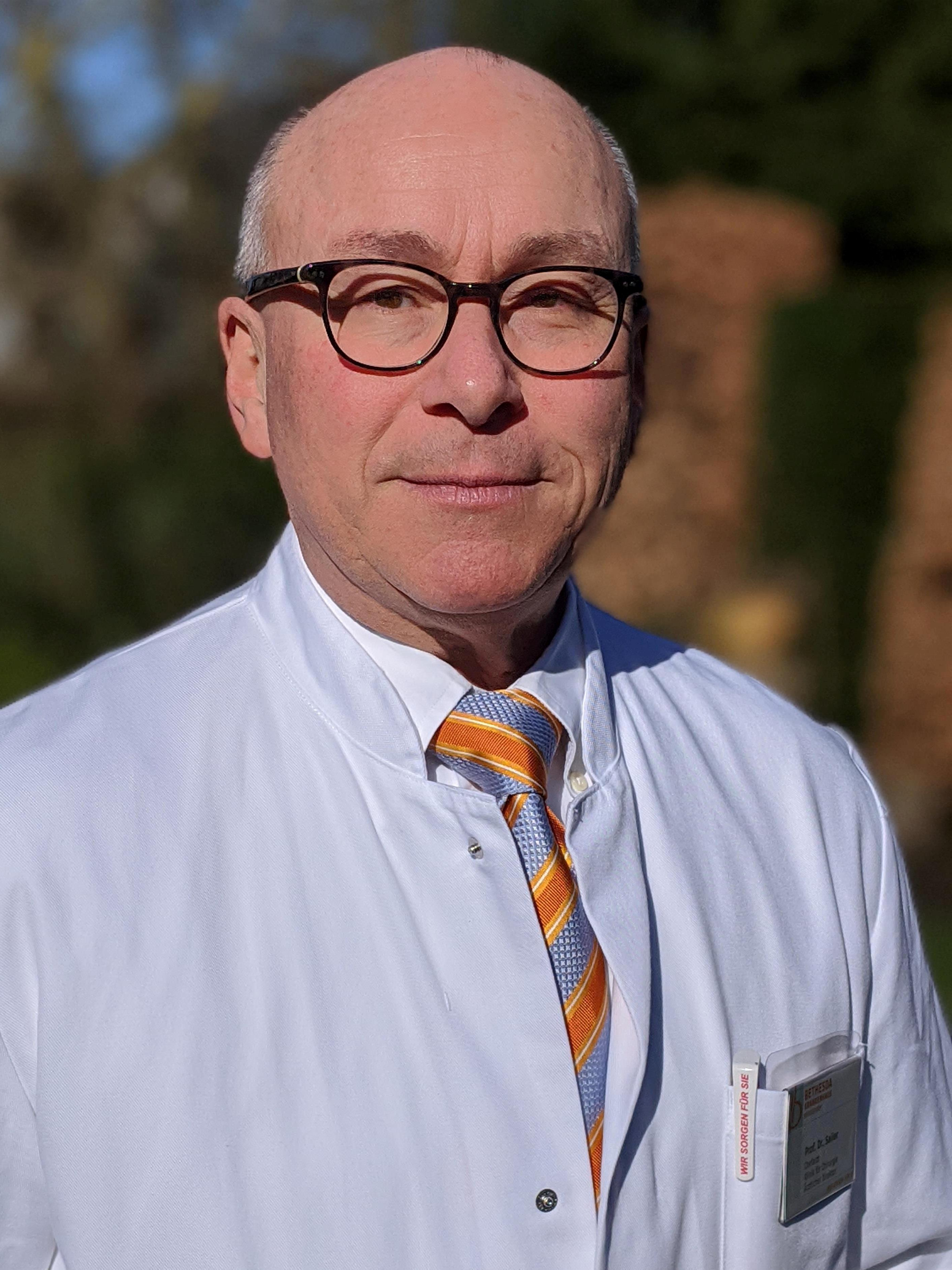 Prof. Dr. Marco Sailer, Professor at the University of Hamburg, Medical Director of the Bethesda Hospital Bergedorf, Hamburg, Head of the Department of Surgery at the Bethesda Hospital Bergedorf, Hamburg; expert in the fields of coloproctology and gastrointestinal tumor surgery.